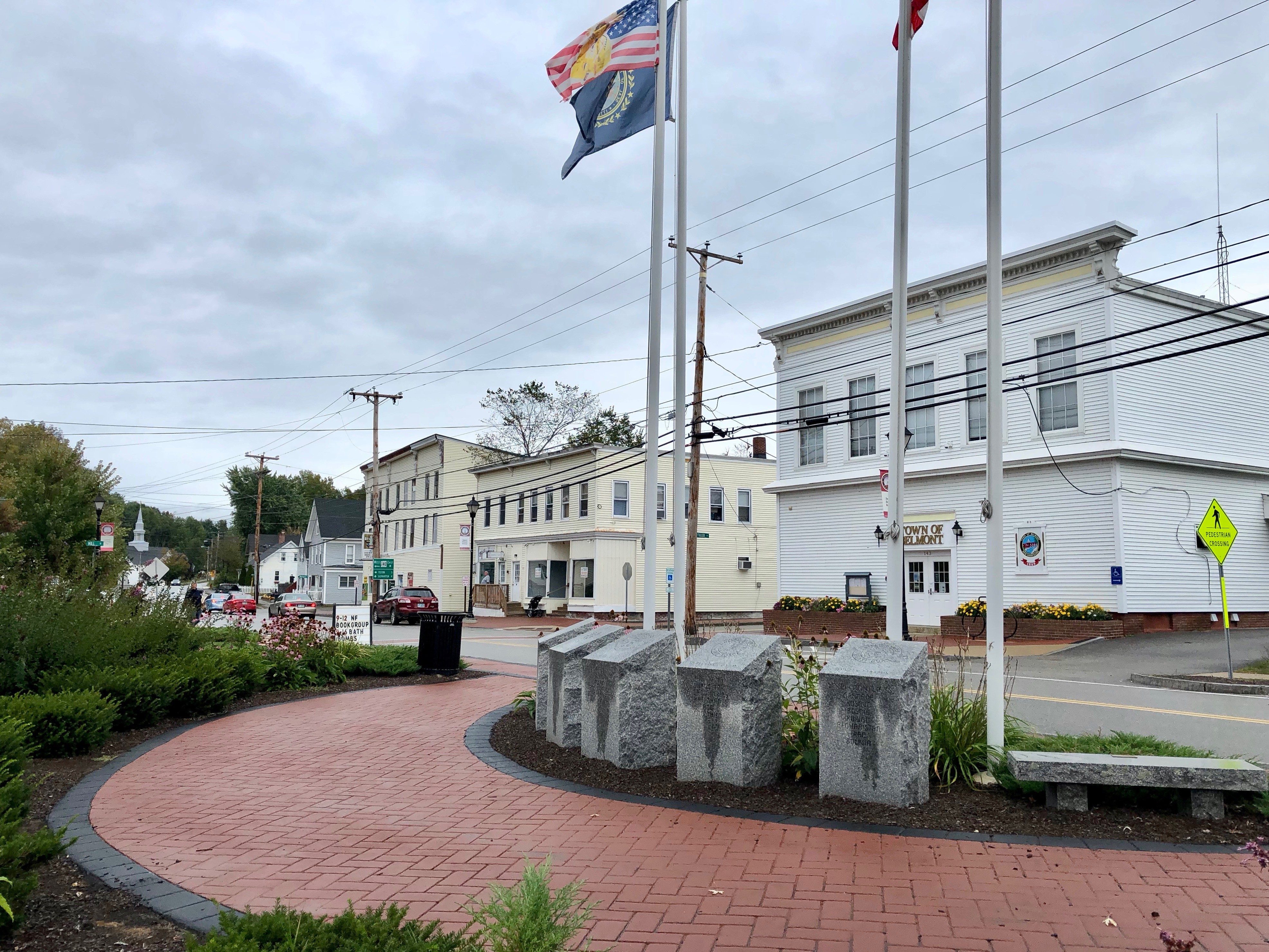 Center of village of Belmont, New Hampshire.